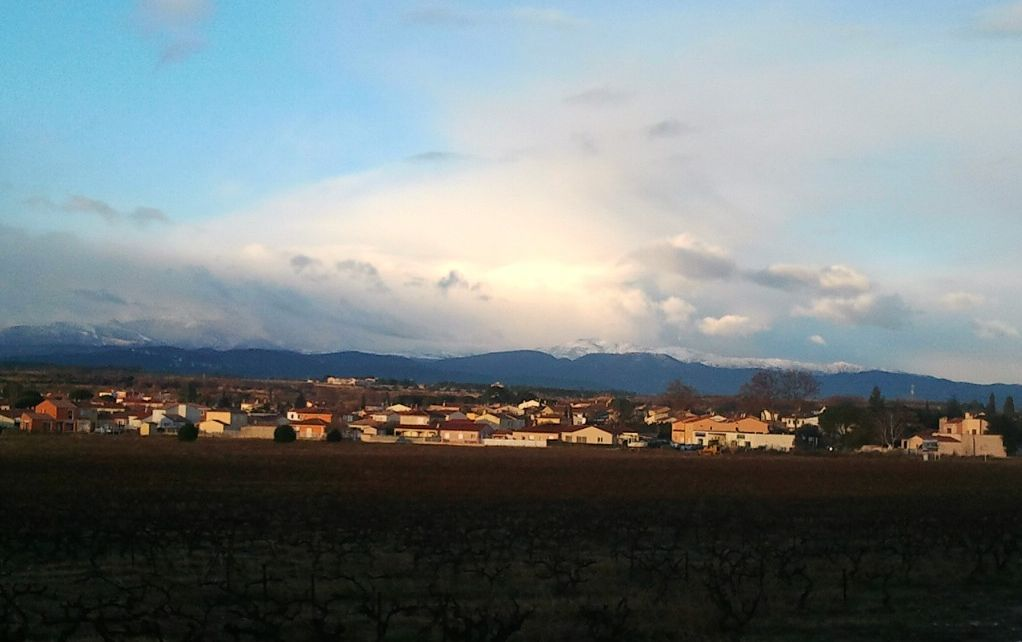 General view of Saint-Jean-Lasseille